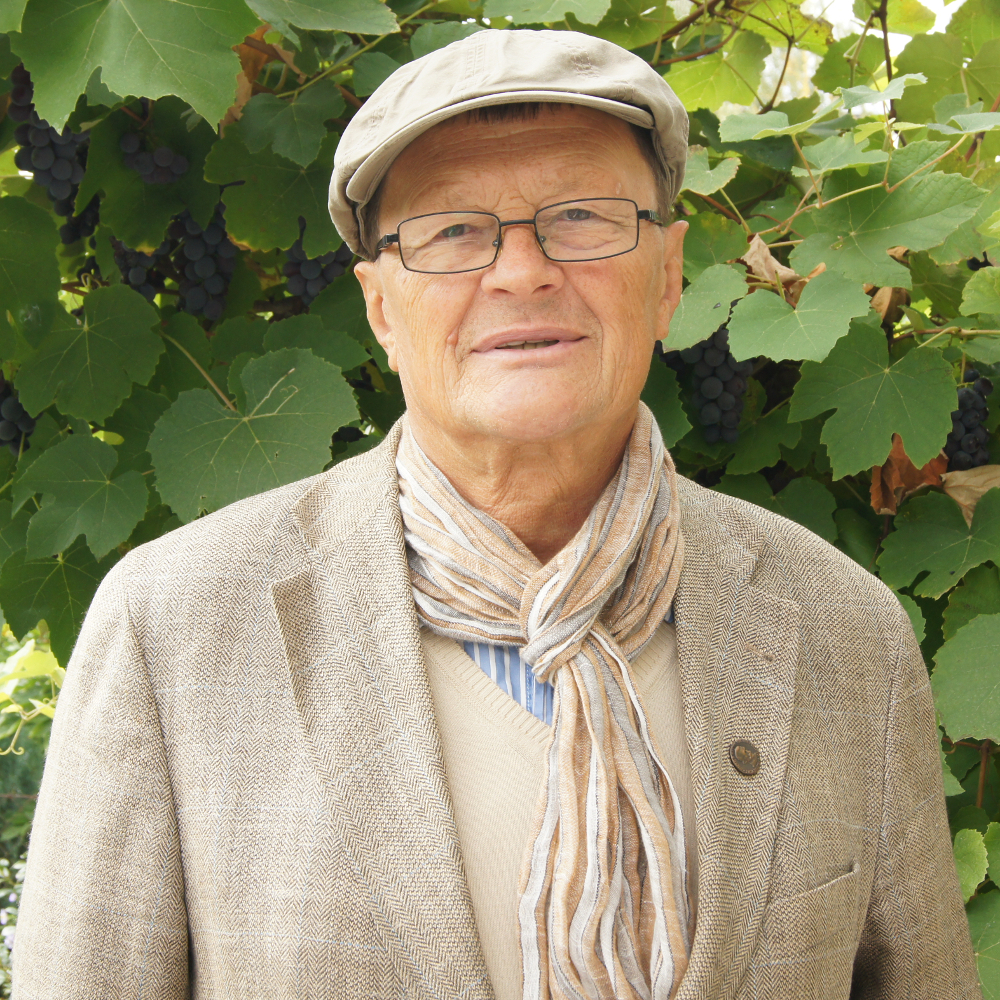 Photo of Janko Prunk